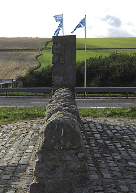 Boundary wall between England and Scotland Looking west from the parking area where the A1 crosses between England and Scotland. The white bird poo appears to have been dropped smack bang on the boundary. Good shot! I also like the wiggly wall on the other side of the A1.